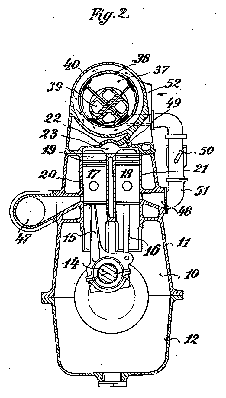 Internal combustion engine with Compressor